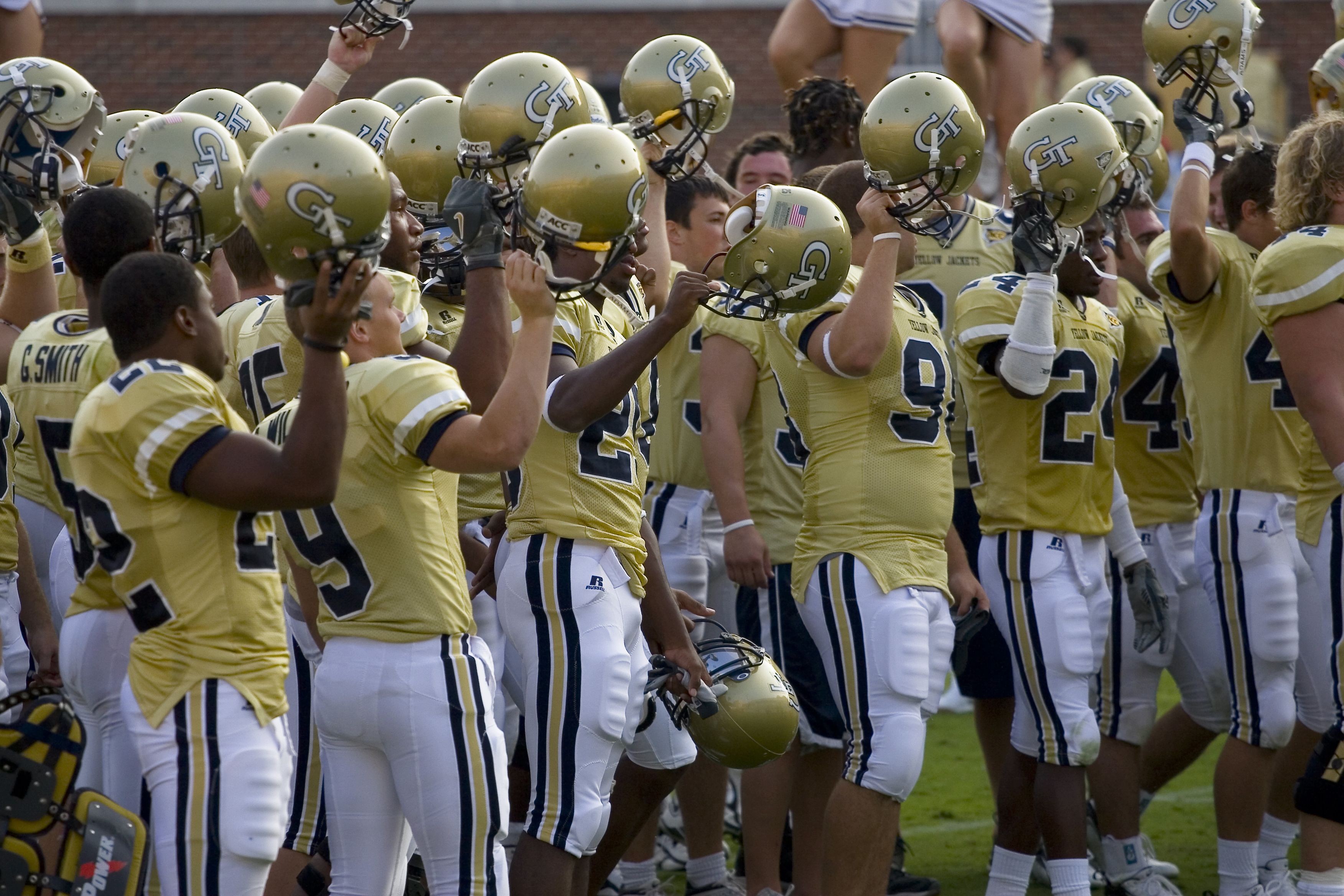 Georgia Tech vs. Samford, September 9th 2006, Final Score: 38-6